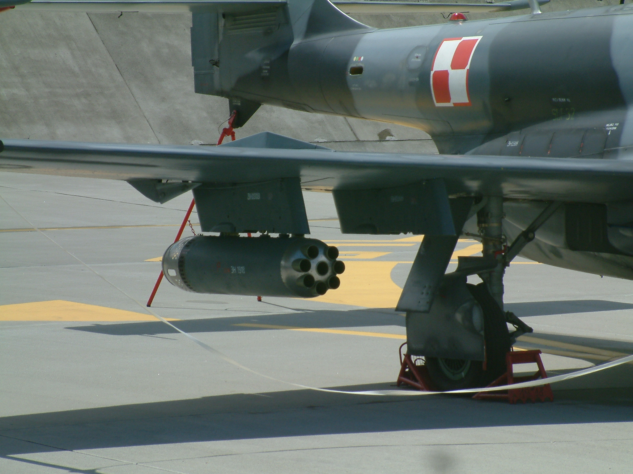 S-5 rockets pod under a wing of TS-11 Iskra R with markings of 3rd Tactical Sqn